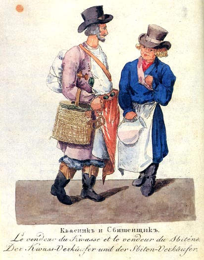 An illustration from the book "Волшебный фонарь или Зрелище..." (St-Petersburg, 1817)